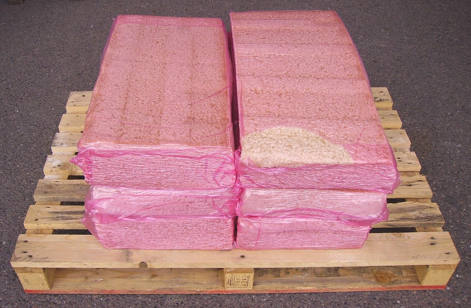 Raw material: nitrile rubber (nitrile butadiene copolymer, NBR) (Krynac® 33110 F grade, cold polymerized, acrylonitrile units content: 33%). Supply form: (6 X) 25 kg bales, wrapped in dispersible colorful PE film to avoid exposure light.